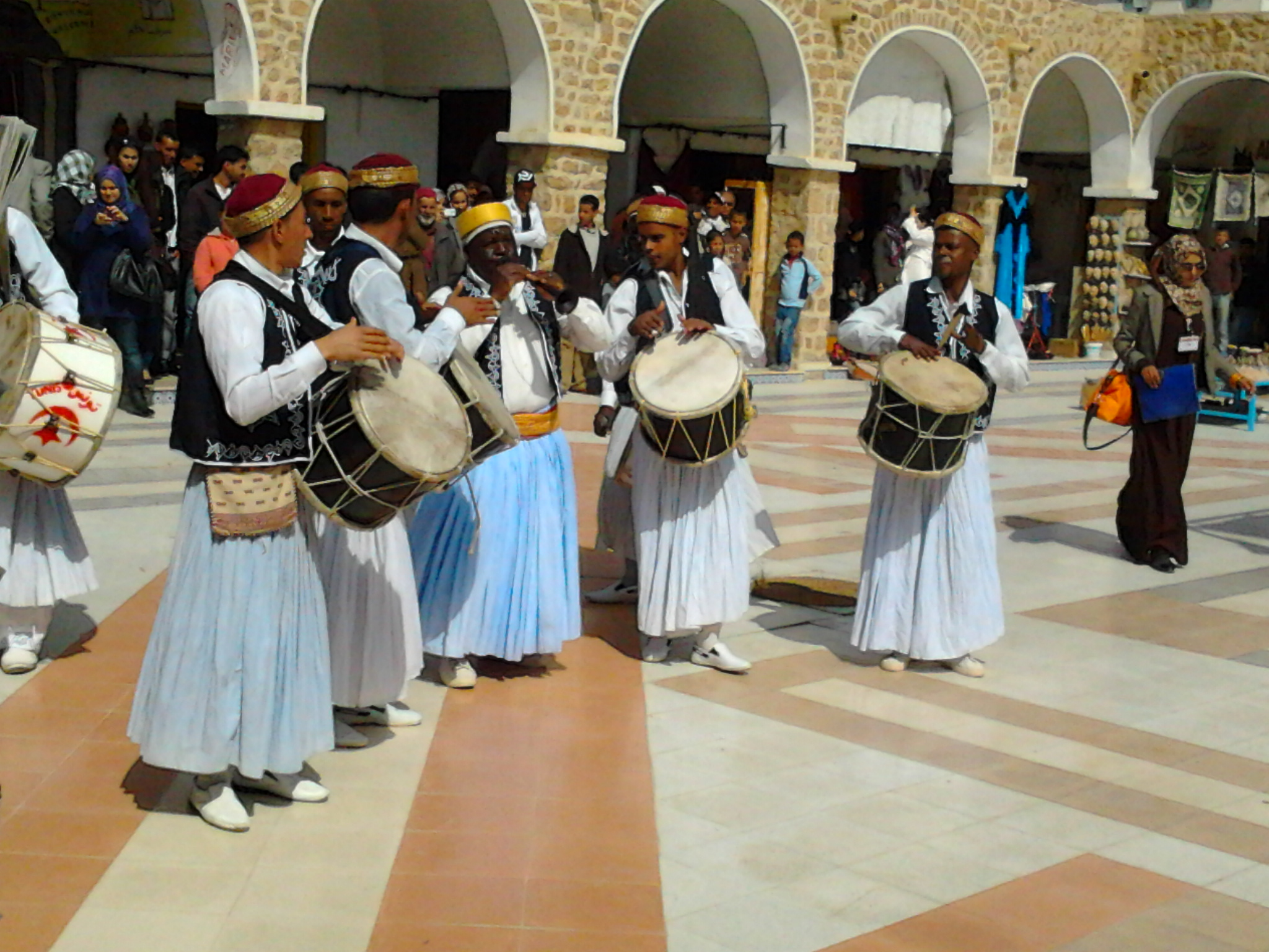 Band consists of drummers and Zukrah player in the old souk of Tataouine, on the occasion of Tataouine's festival.